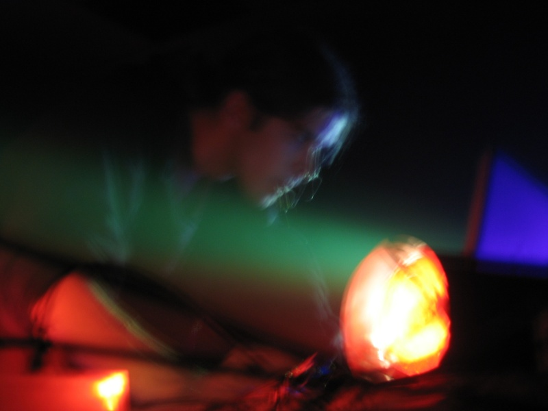 Jan Robbe performing live.